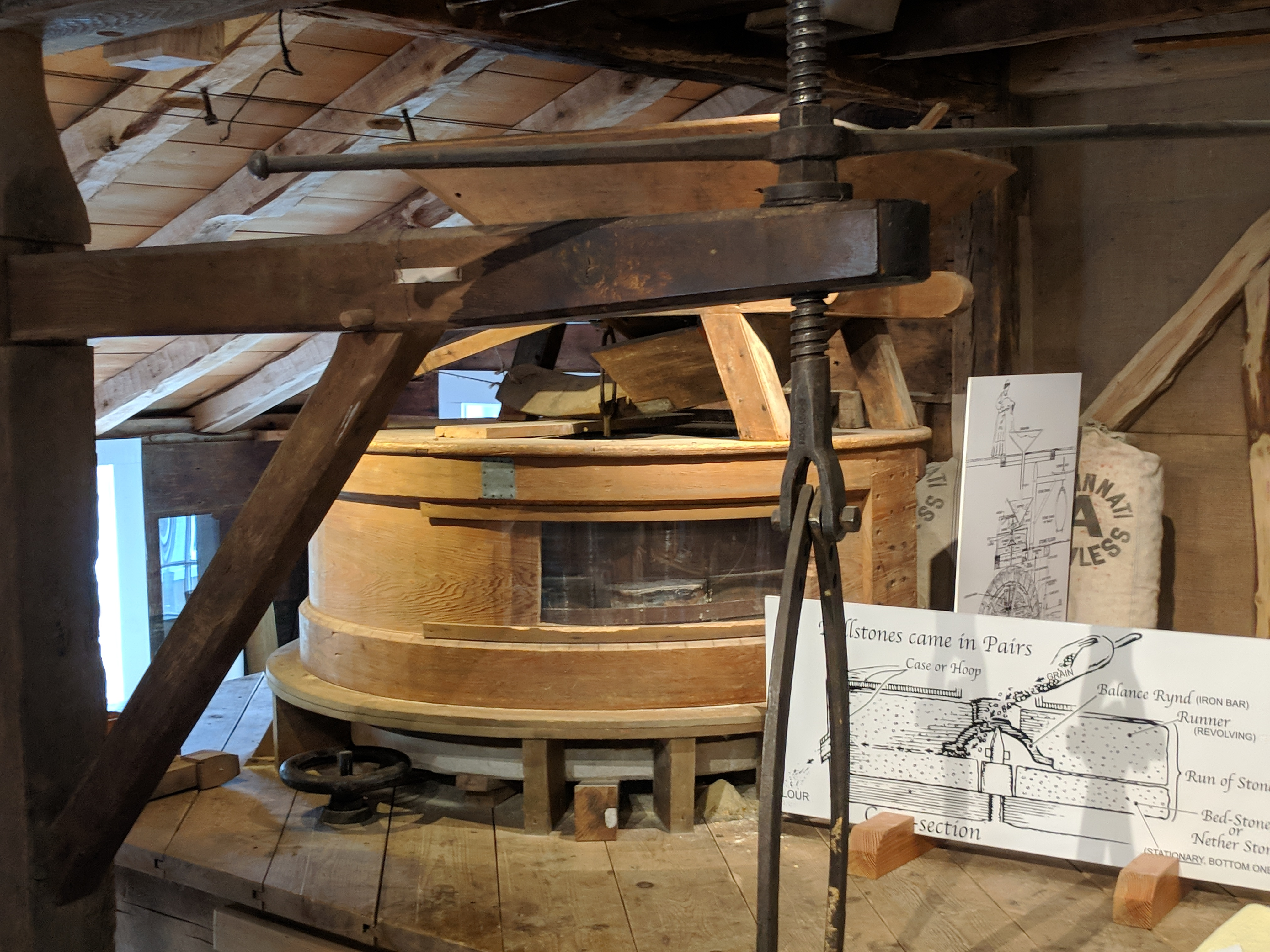 Restored gristmill